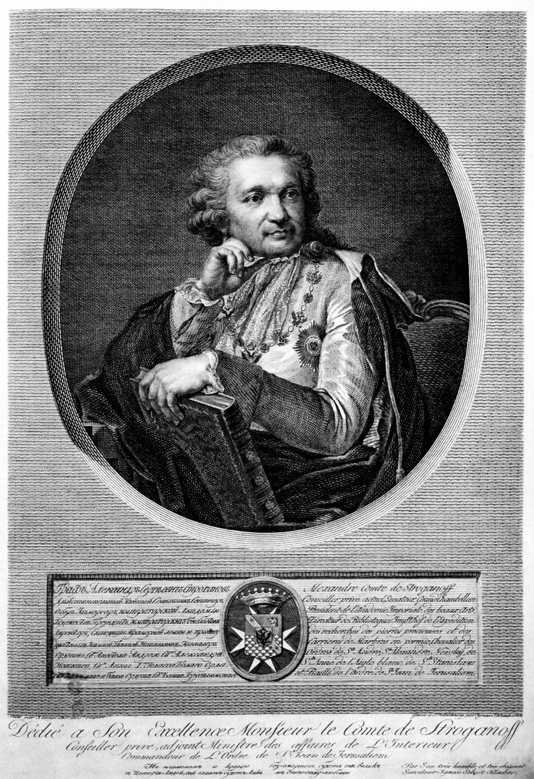 Portrait of A. S. Stroganov by Ignaz Sebastian Klauber, 1807